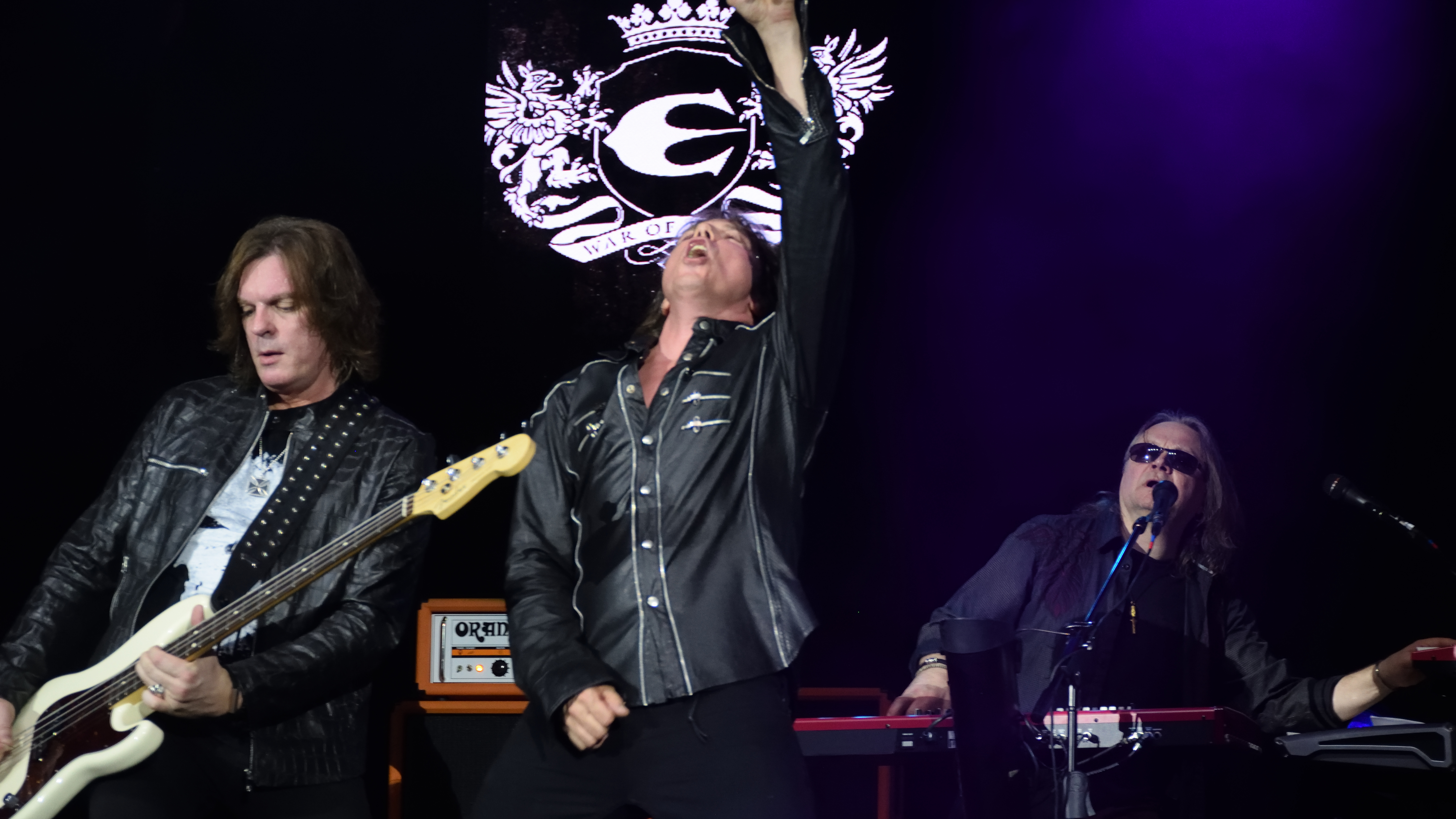 Joey Tempest, John Levén & Mic Michaeli